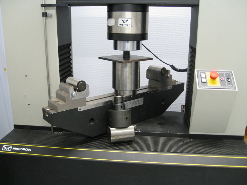 Compression test on a Instron universal testing machine equipped with a 300 kN dynamometer. Measuring the compressive strength of a composite cylinder (glass-beads-reinforced epoxy cylinder).